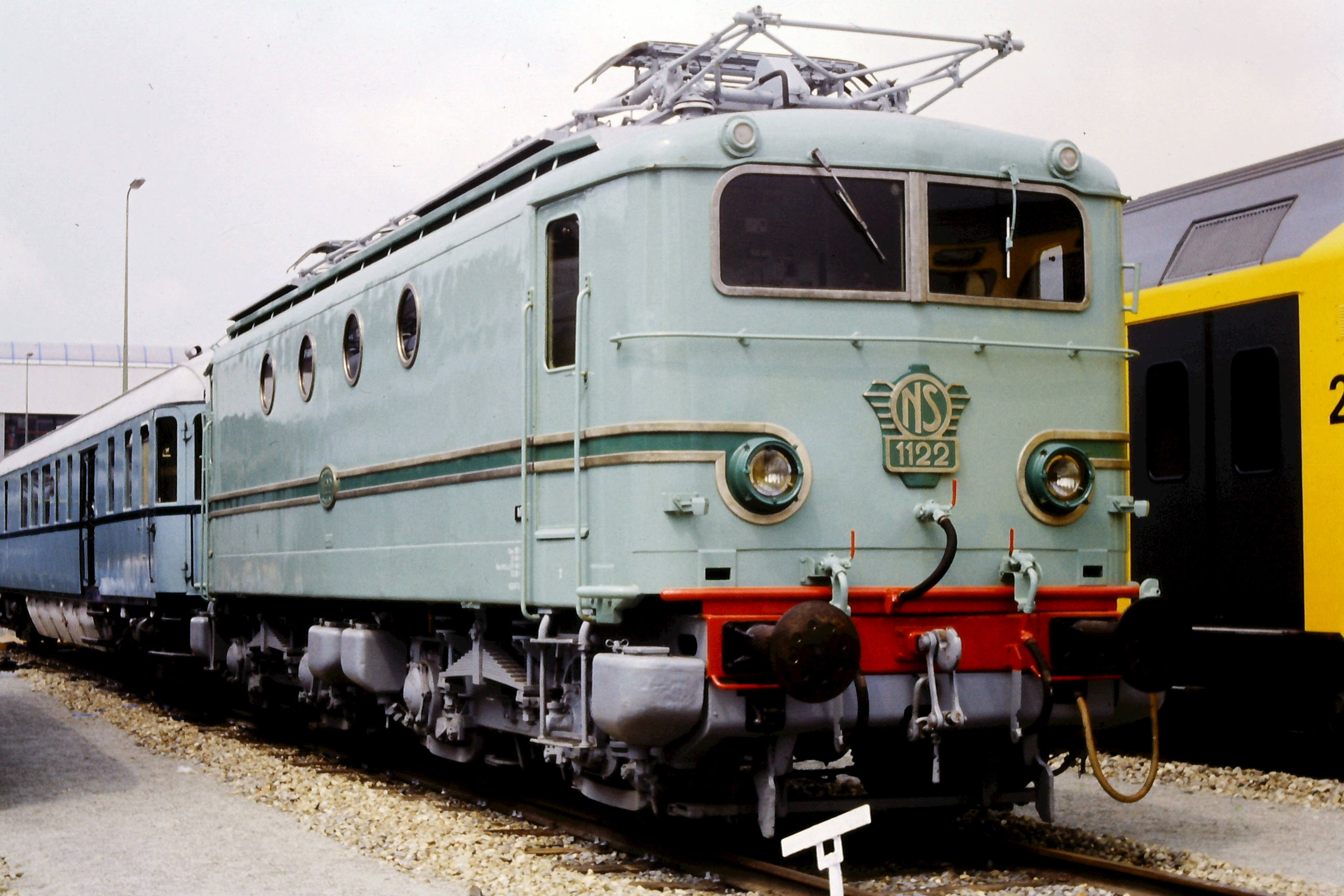 Scanned from slide.